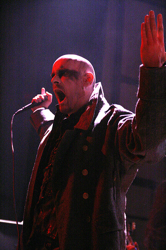 Alan Averill, vocalist of the band Primordial, during a concert in 2007 in Arnhem. I (User:Hervegirod) made this picture myself. The original is on my flickr home page, which states this image is my own work